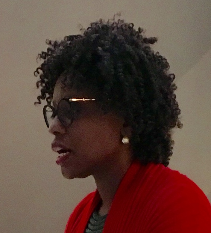 Performance, Galerie SANAA, Utrecht, The Netherlands, 2019.